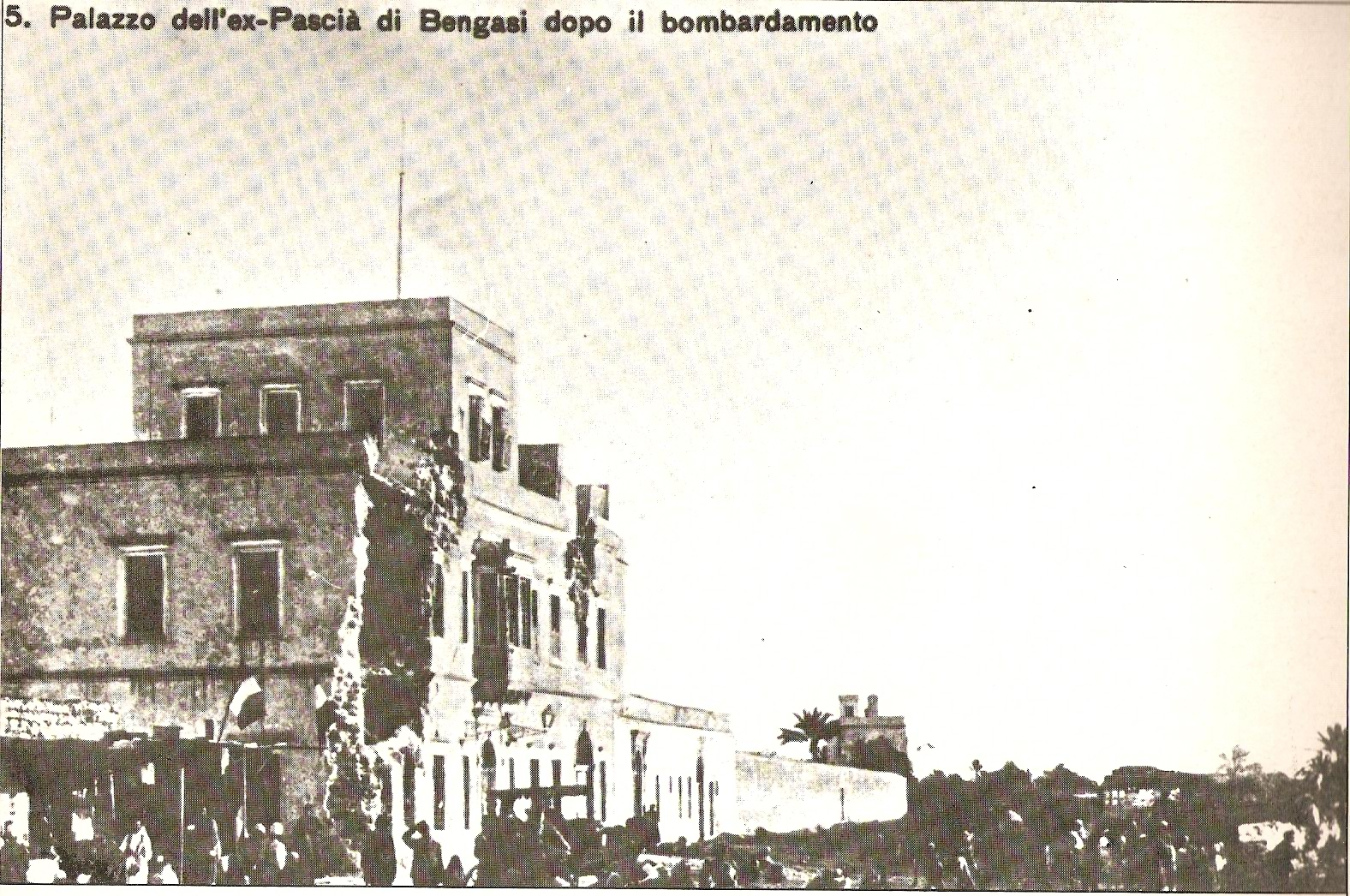 Pasha's palace in Benghazi after bombardment.